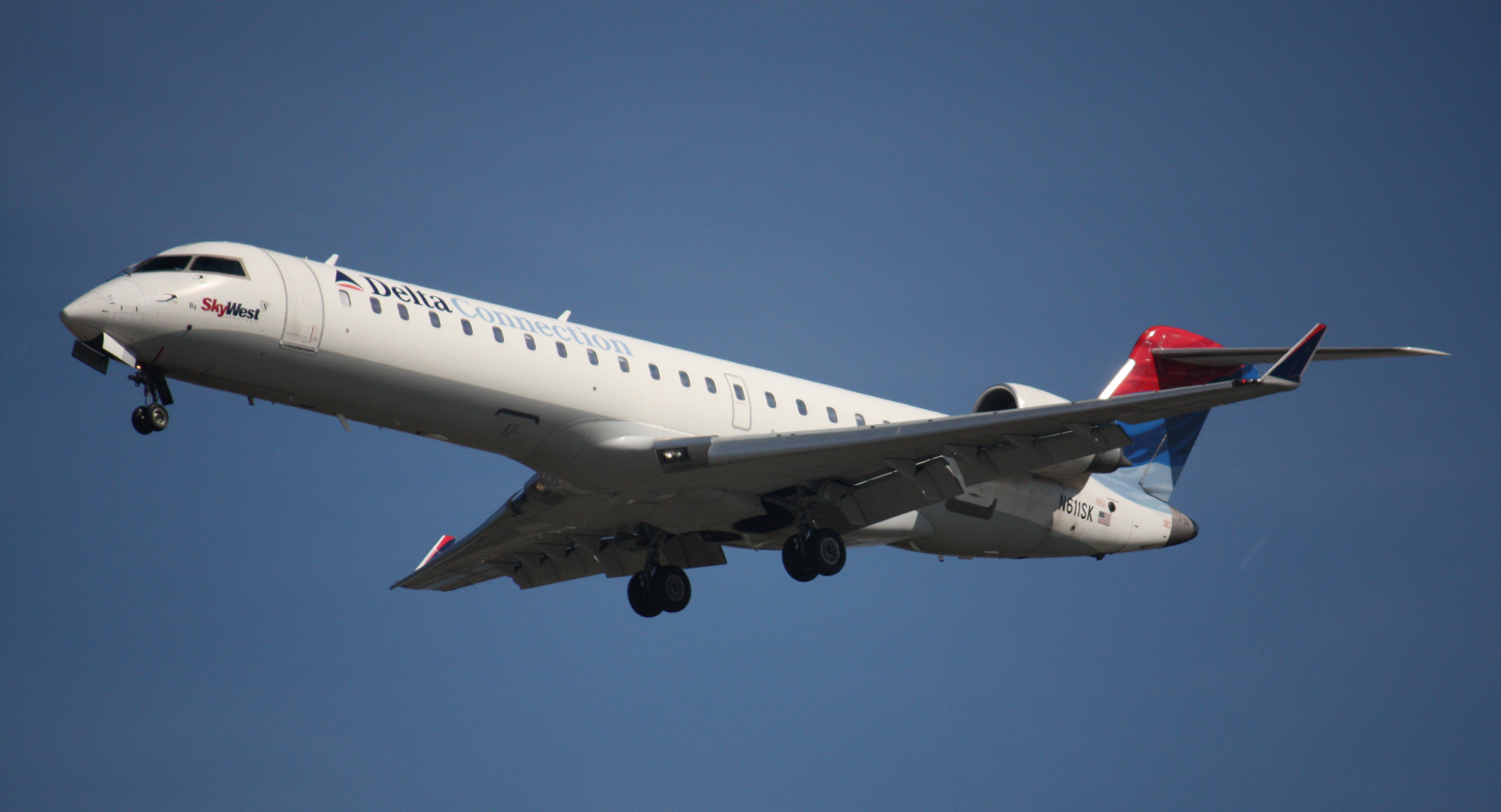 A Delta Connection CRJ-700, operated by SkyWest, landing at Vancouver International Airport